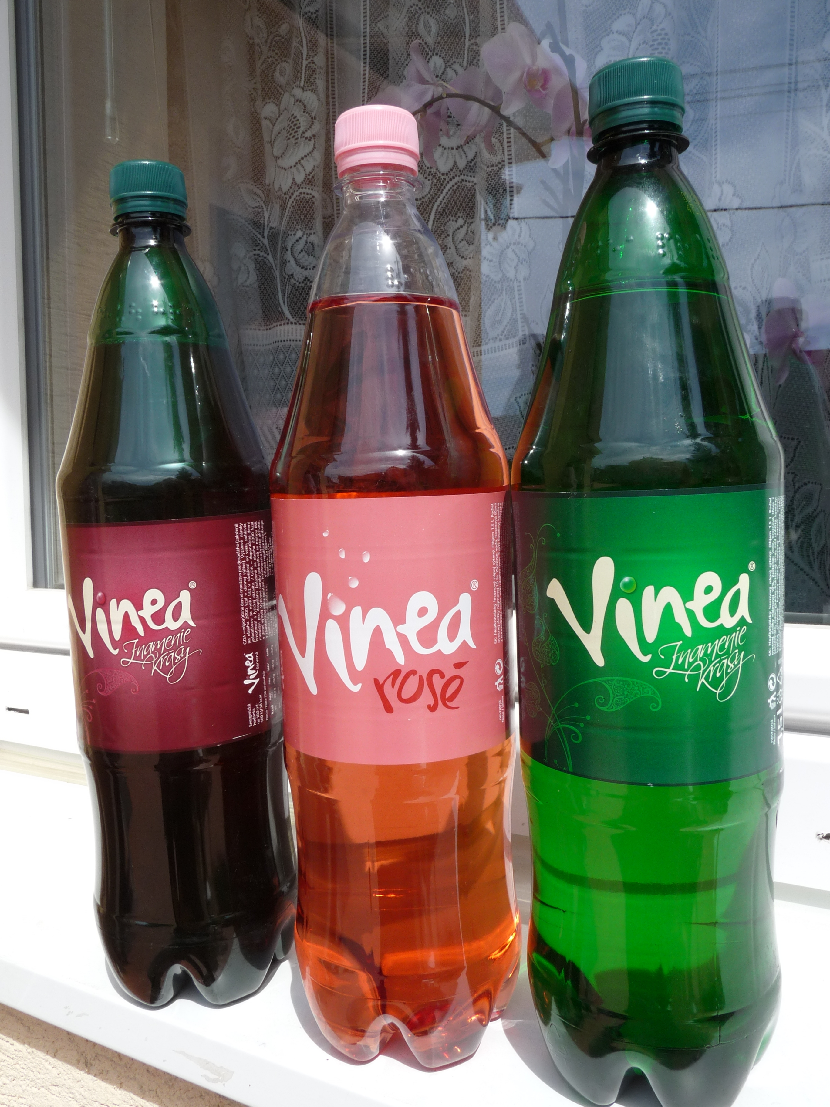 Vinea soft drink available in Slovakia made from grapes.